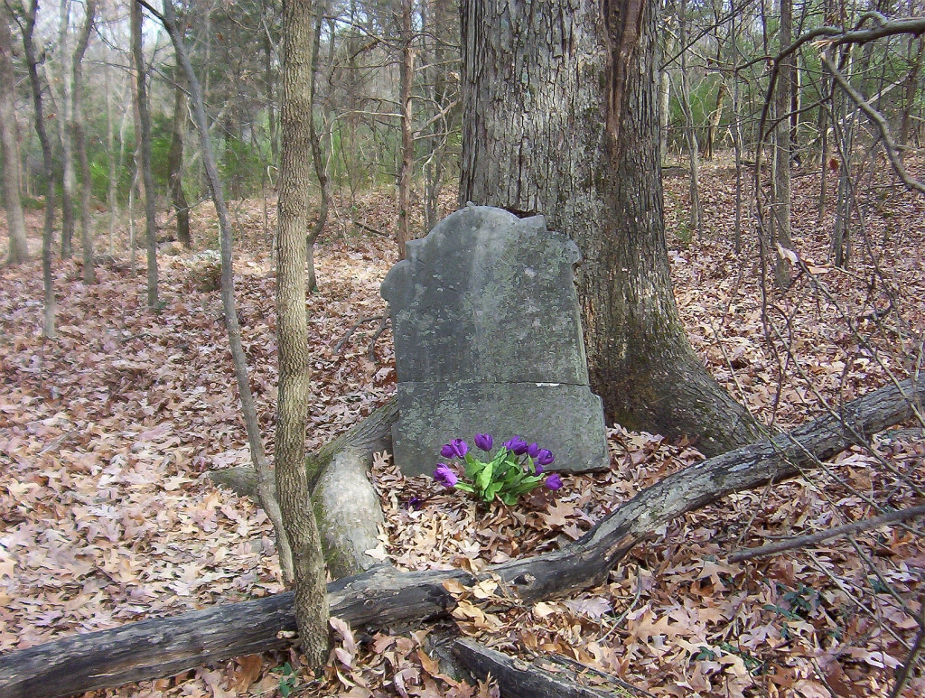 Photo of grave marker in Shelby Farms park, Shelby County, Tennessee Inscription: MANN, Robert W. - April 4th, 1843 - November 25th, 1891 MANN, Mary S. - June 22nd, 1848 - December 5th, 1891 In memory of our Father & Mother Photo made by: Thomas R Machnitzki I took this photo myself, feel free to use it.